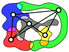 Intersection graph schema sample